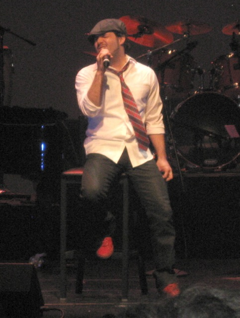 Photo of Matt Cusson